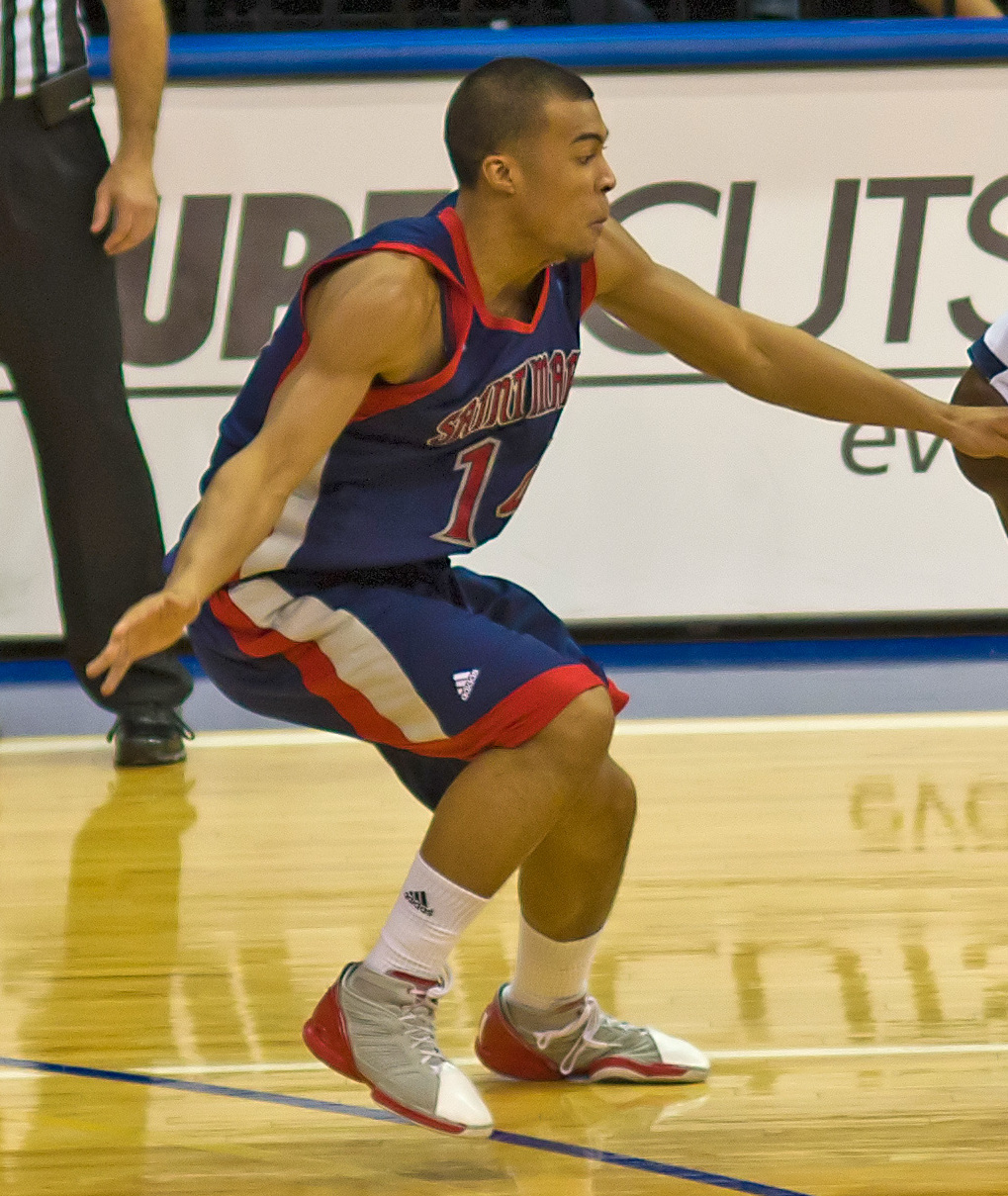 Stephen Holt for St. Mary's